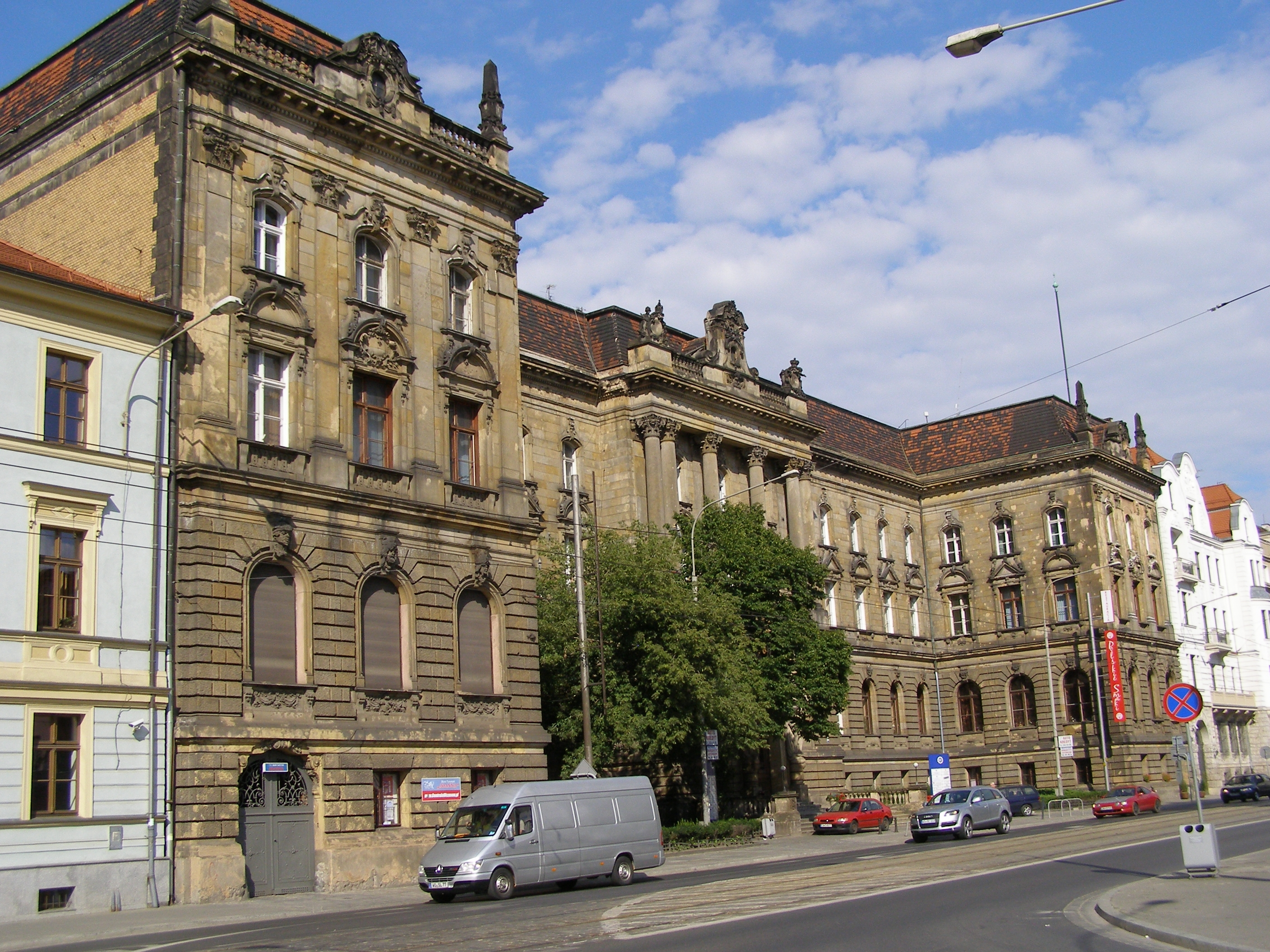 Wrocław - NOT building